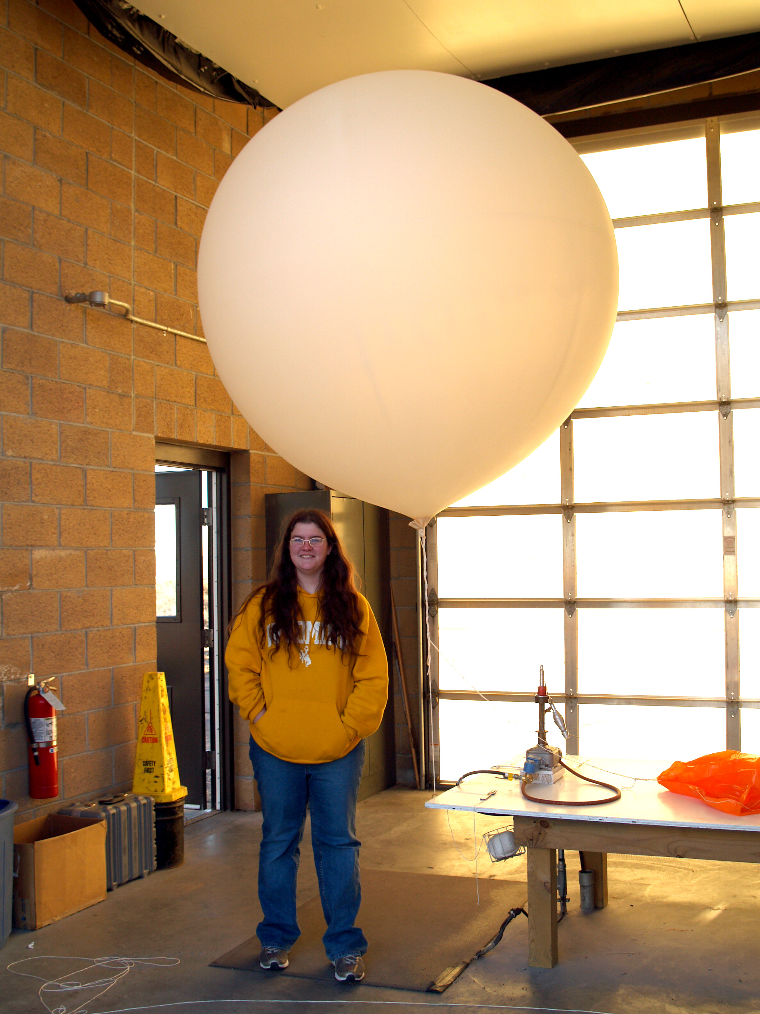 NWS weather balloon station, Riverton WY